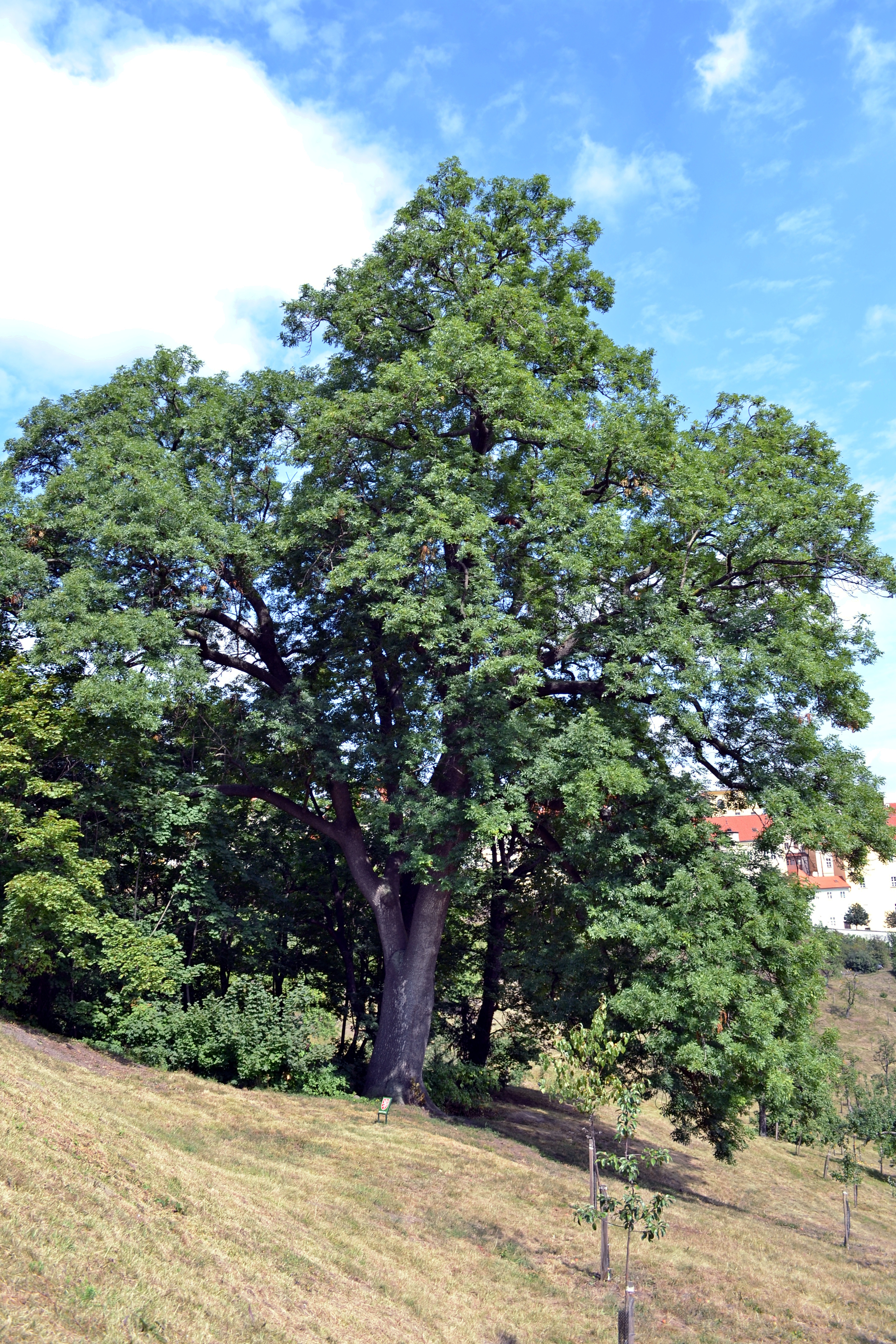 A famous tree - common ash (Fraxinus excelsior) in the Great Strahov garden just below the Strahov monastery in Hradčany, Prague 1, Czech Republic.